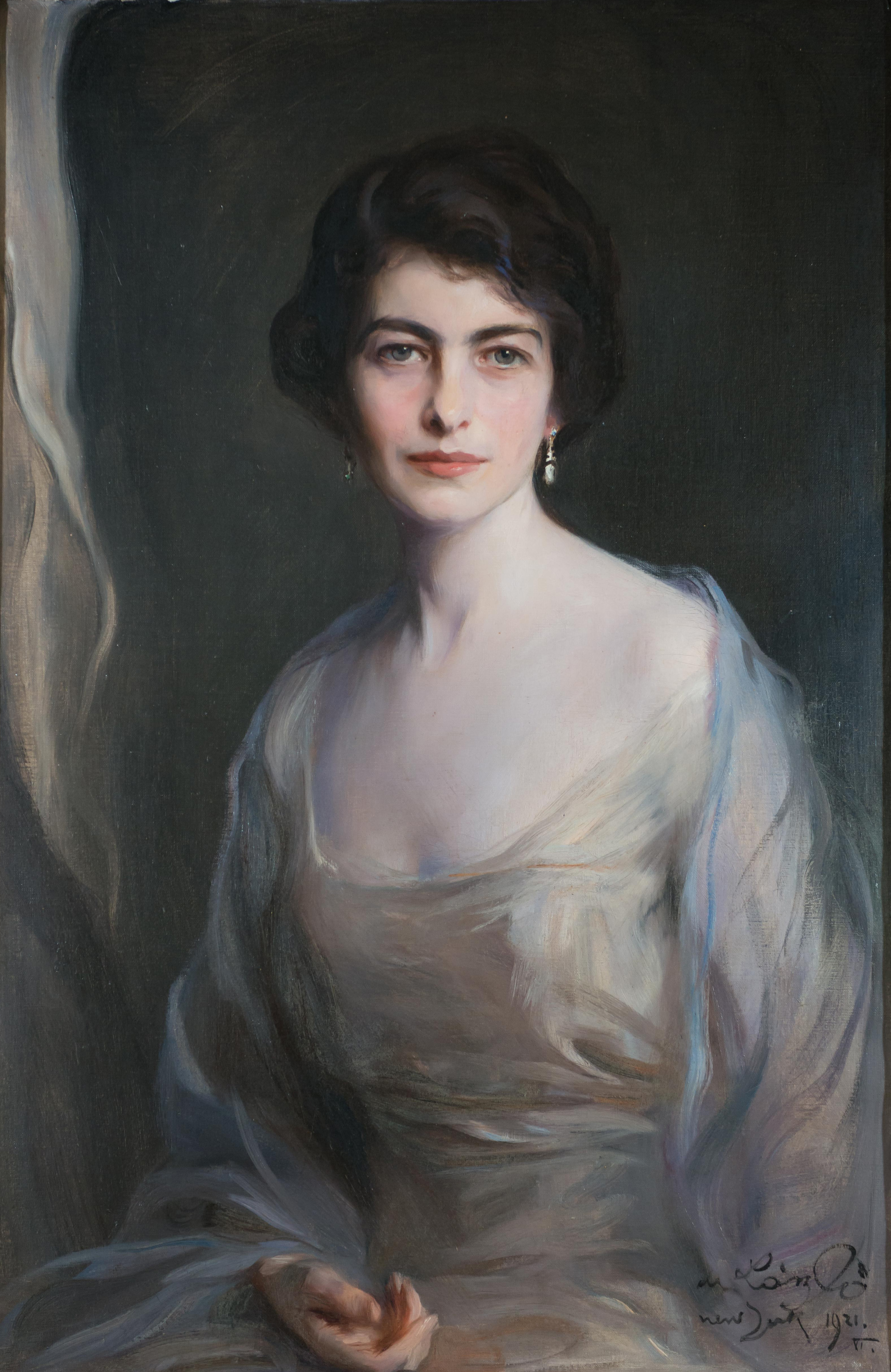 Portrait of Countess Laszlo Szechenyi, Gladys Moore Vanderbilt (1921), the youngest child and daughter of Mr. and Mrs. Cornelius Vanderbilt, II.